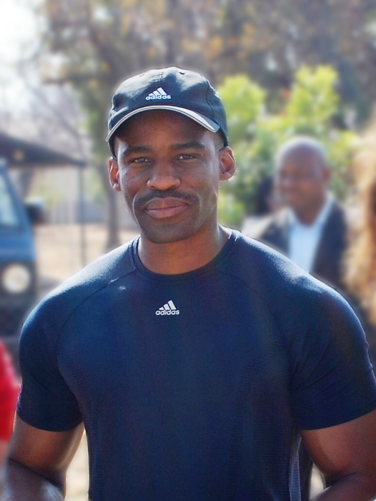 U.S. Embassy Pretoria Press Attache Sharon Hudson-Dean poses for a photo with King of the Royal Bafokeng Nation, Kgosi Leruo Tshekedi Molotlegi, and a fellow U.S. Embassy Pretoria staff member before two Under-11 Bafokeng Football Academy teams previewed the FIFA 2010 World Cup match between the United States and Ghana by playing each other as the “U.S.” and Ghana” on June 25, 2010, in Rustenburg, South Africa. The game highlighted the development of rural soccer in South Africa, particularly in the Royal Bafokeng Nation, which consists of twenty-nine villages located in the Rustenburg Valley in the North West Province. [State Department photo/ Public Domain]